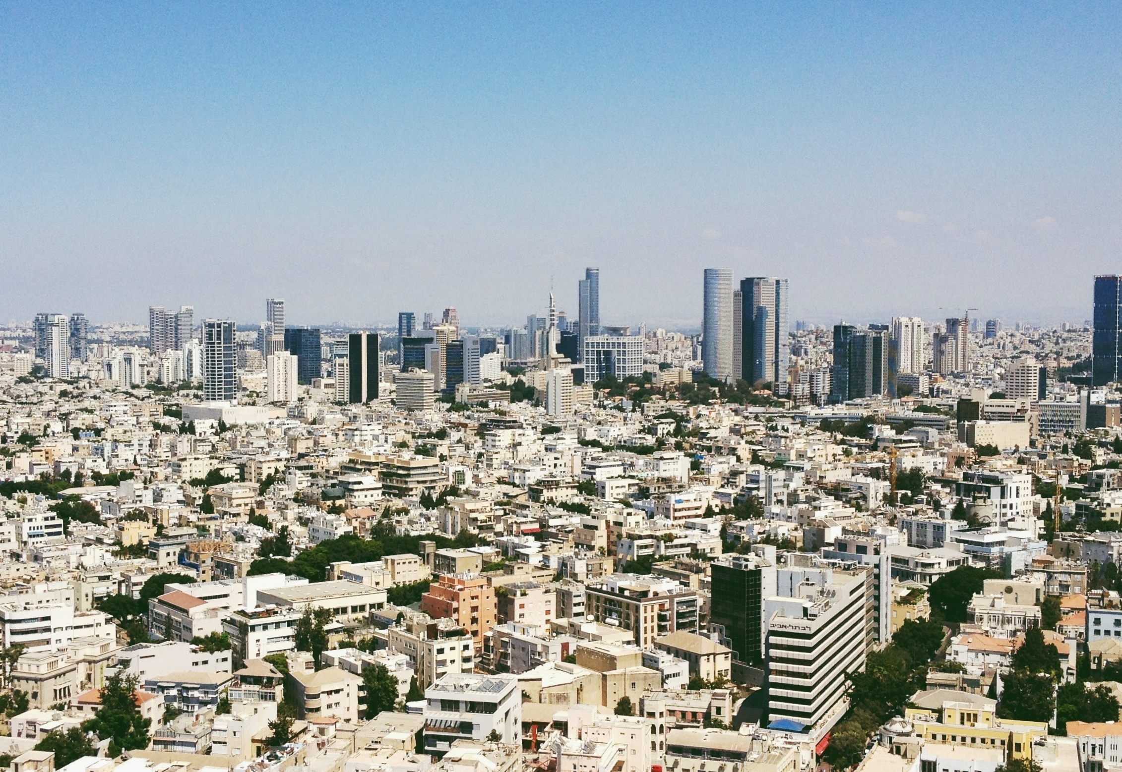 Tel Aviv, Israel